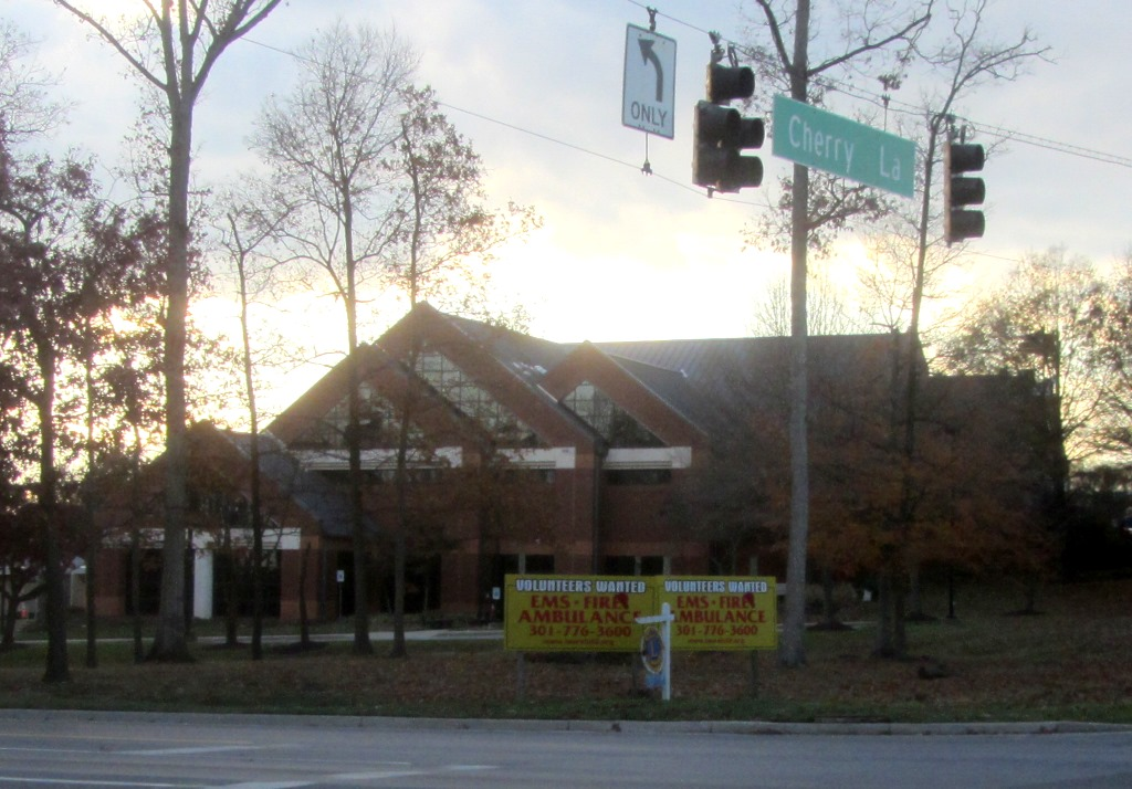 Laurel Volunteer Fire Department